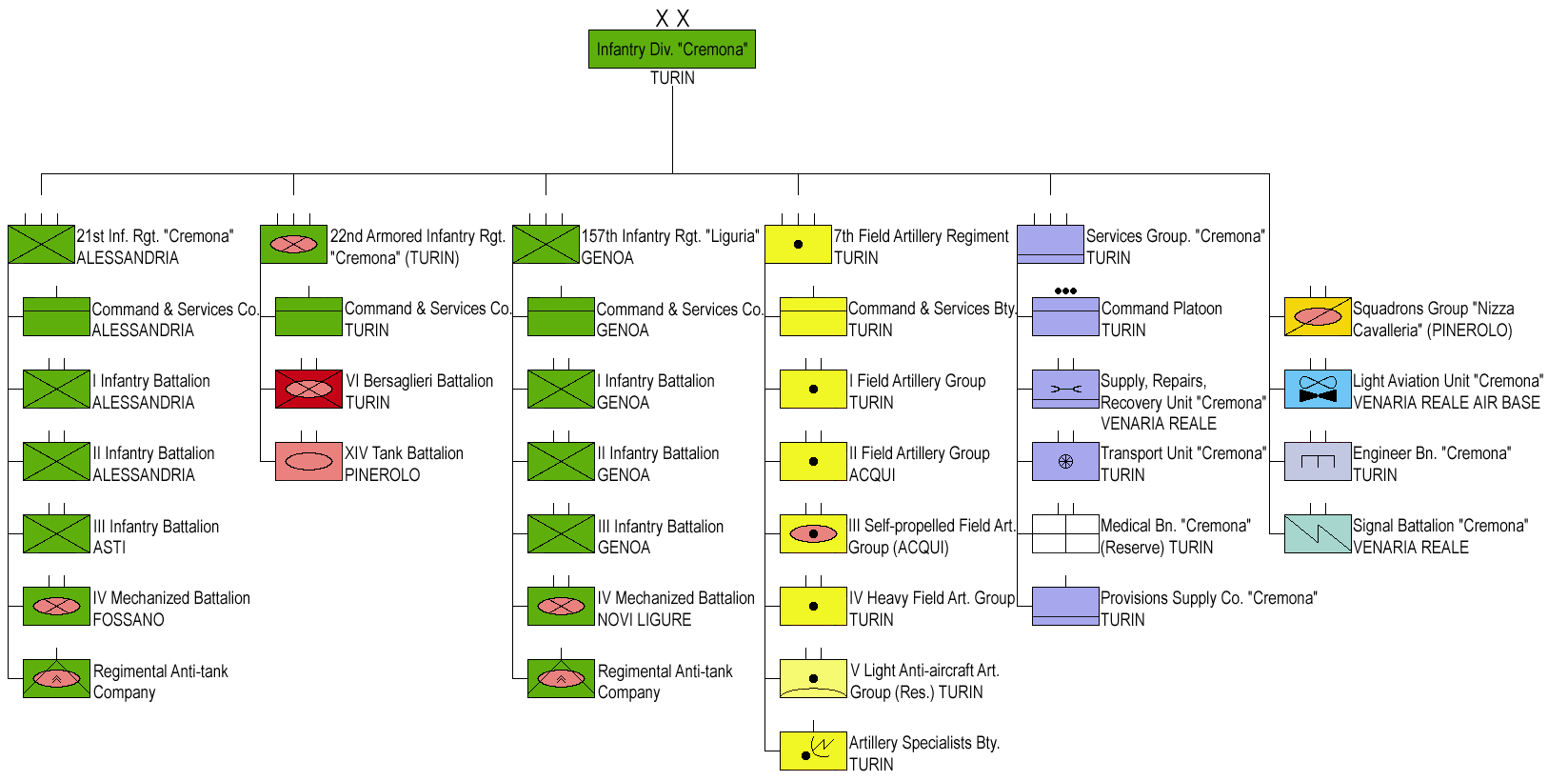 Structure of the Italian Army Infantry Division "Cremona" in 1974